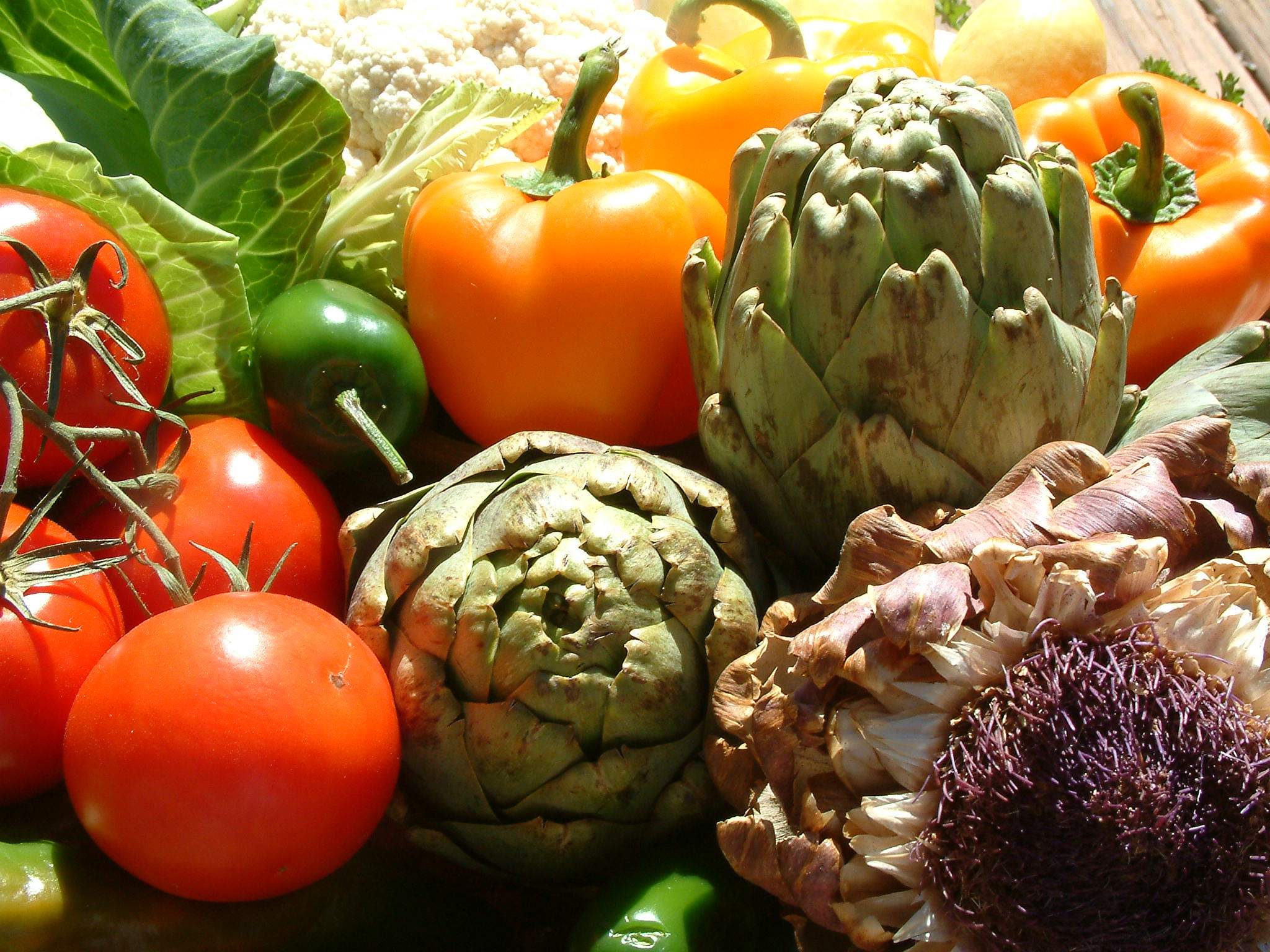 Artichoke, tomato, bell peppers, cauliflower